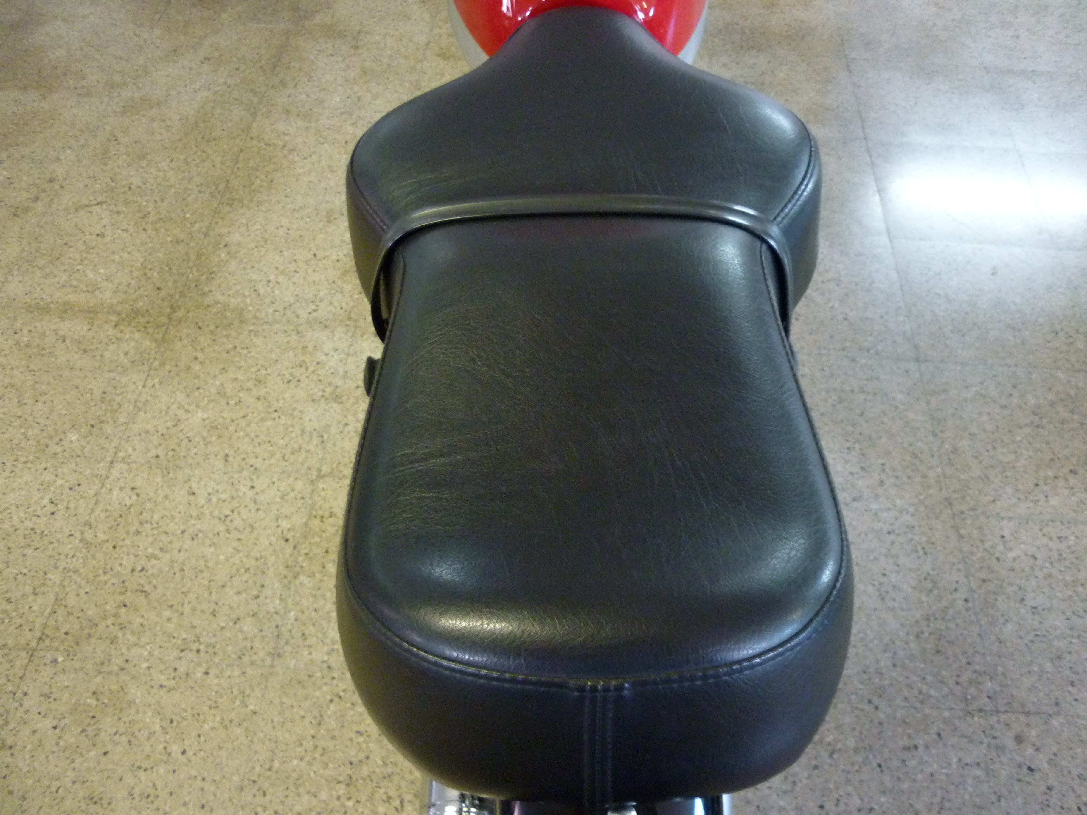 Montesa Impala Sport saddle (1963).Isern Motorcycle Museum, Mollet del Vallès (Catalonia).